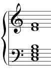 Eleventh chord